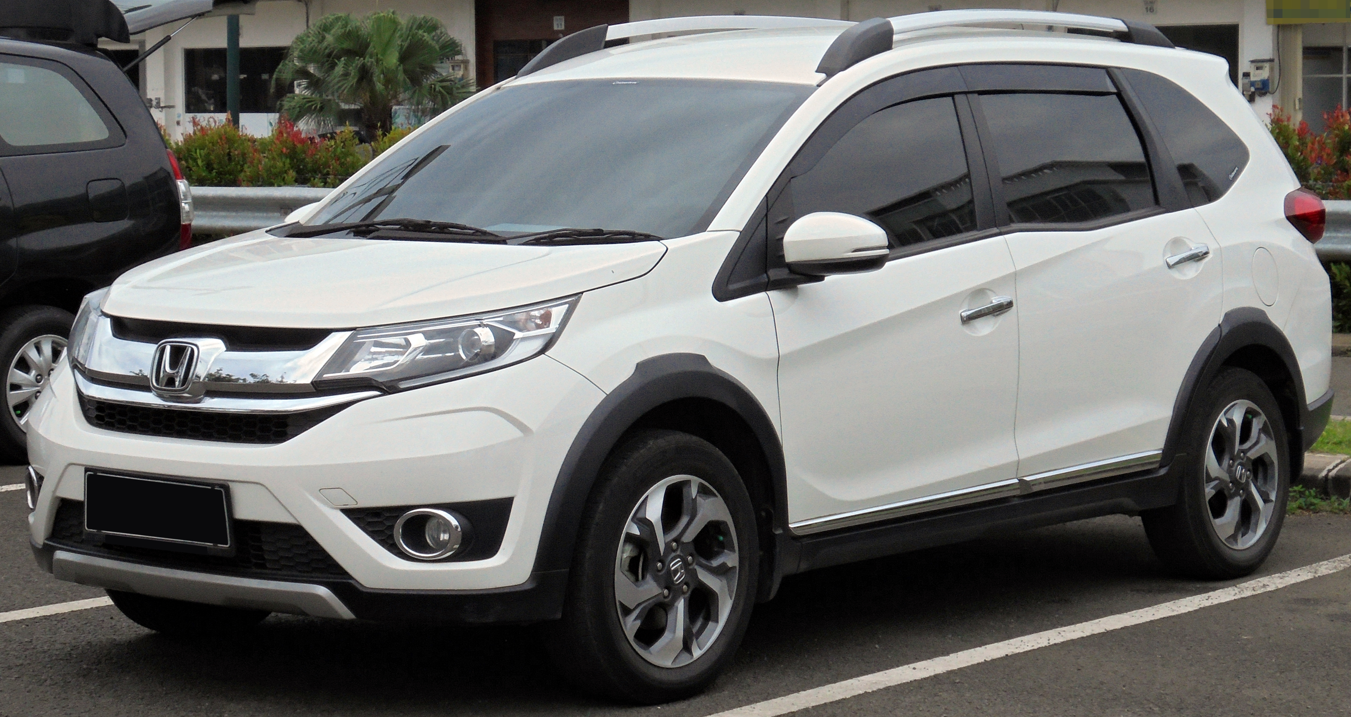 2017 Honda BR-V 1.5 E (DG1)